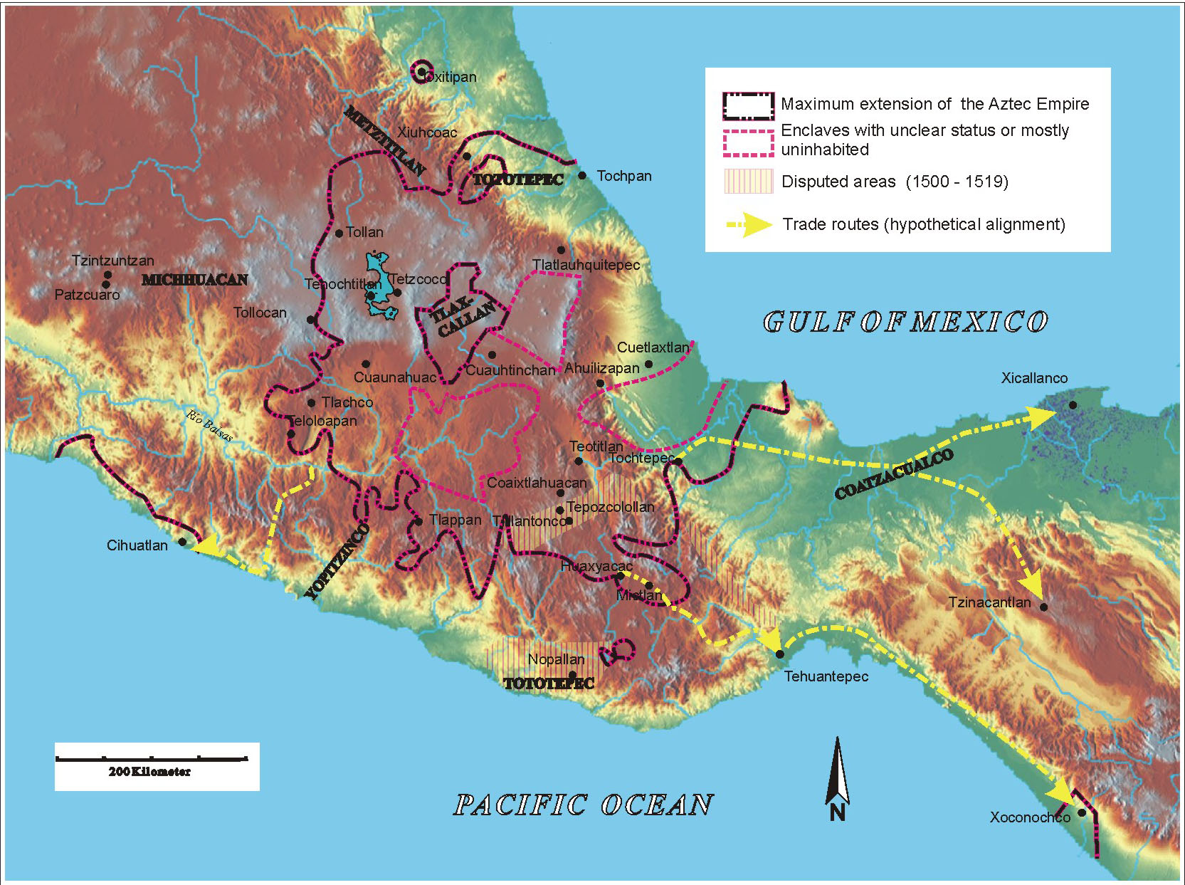 Extent of the Aztec Empire in ca. 1519